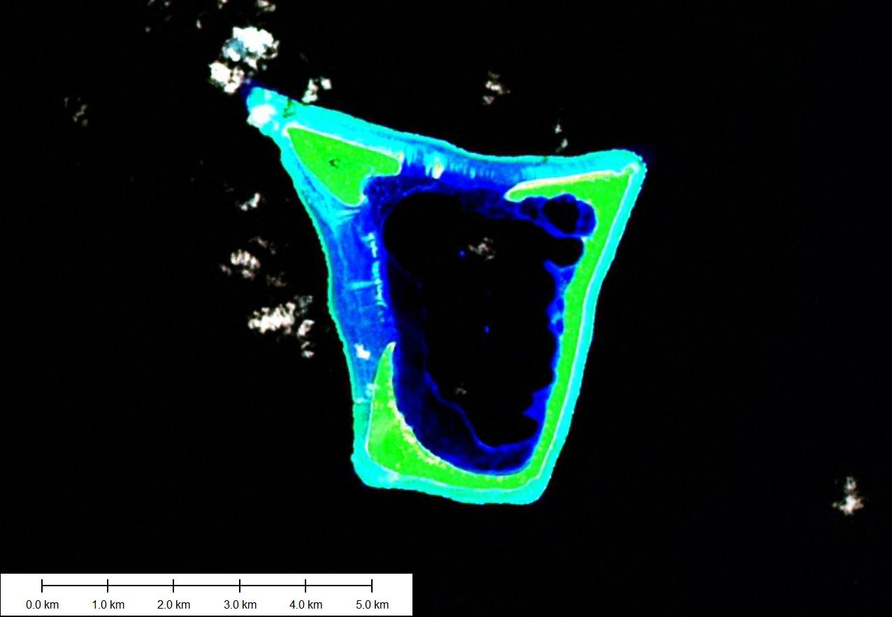 Namorik Atoll created from Landsat ETM+ Imagery N-03-05_2000